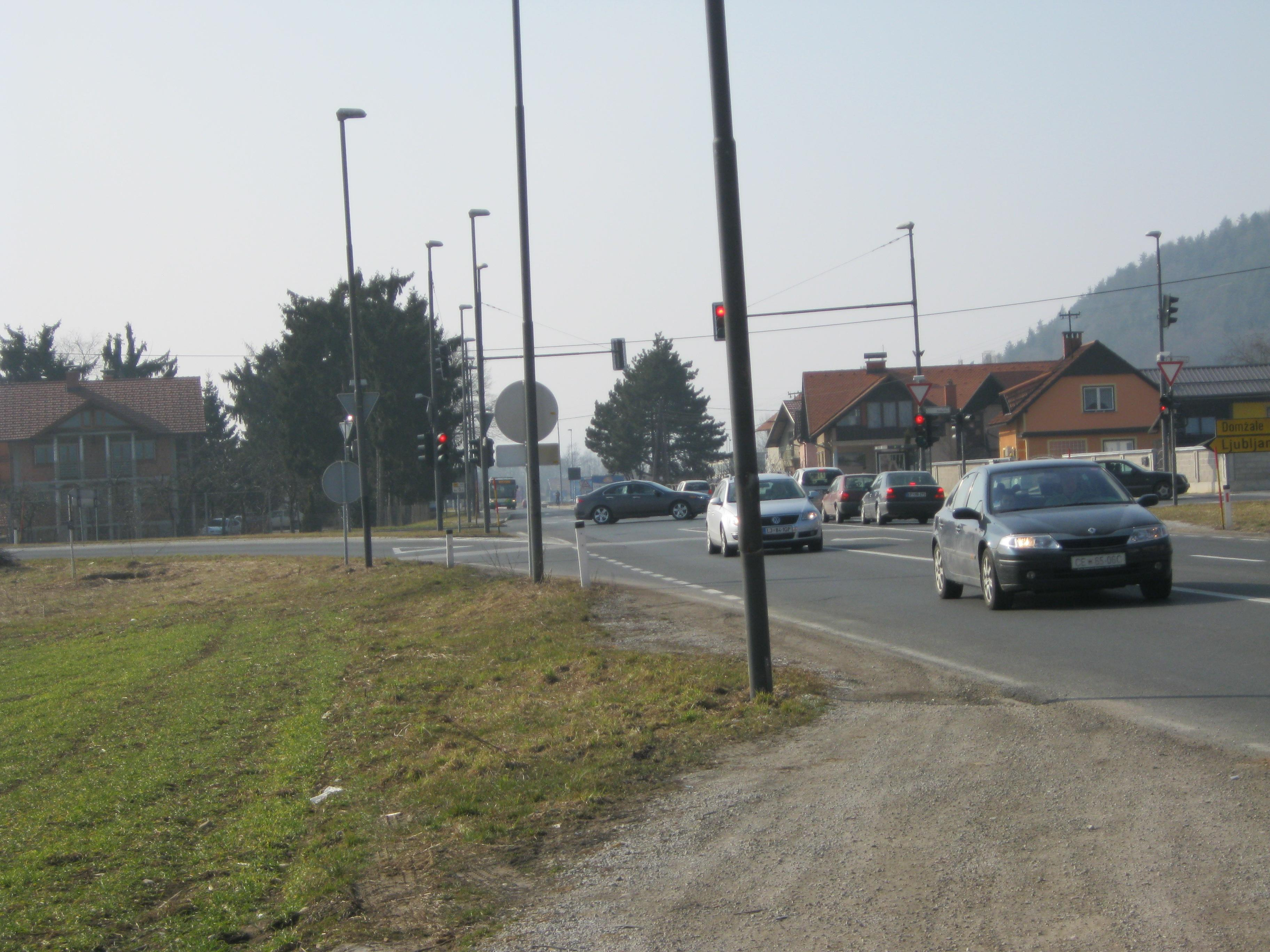 Main crossing at Šentjakob ob Savi.